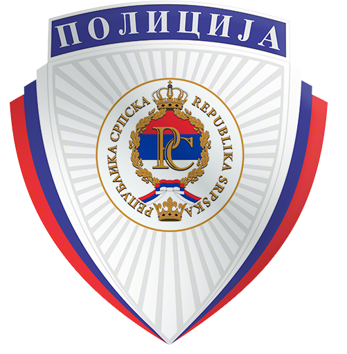 Emblem of Police of Republika Srpska made after accepting of new emblem of Republika Srpska. This emblem is used on uniforms and all documents and web-sites of police and it is used as representative sign of police and Ministry of Interior of Republika Srpska.